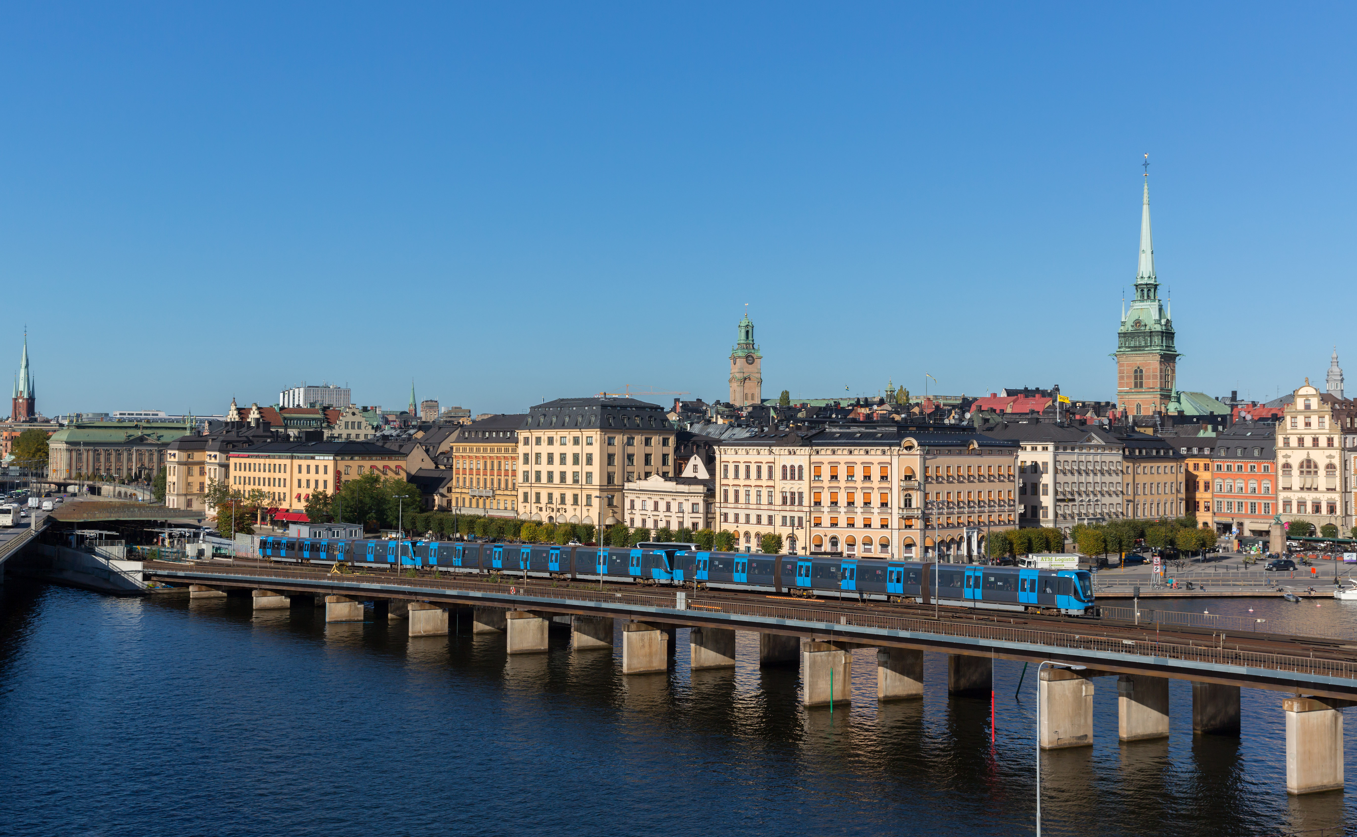 Storstockholms Lokaltrafik class C20 used on the Tunnelbana pictured near the Gamla Stan (old town) stop in Stockholm, Sweden.